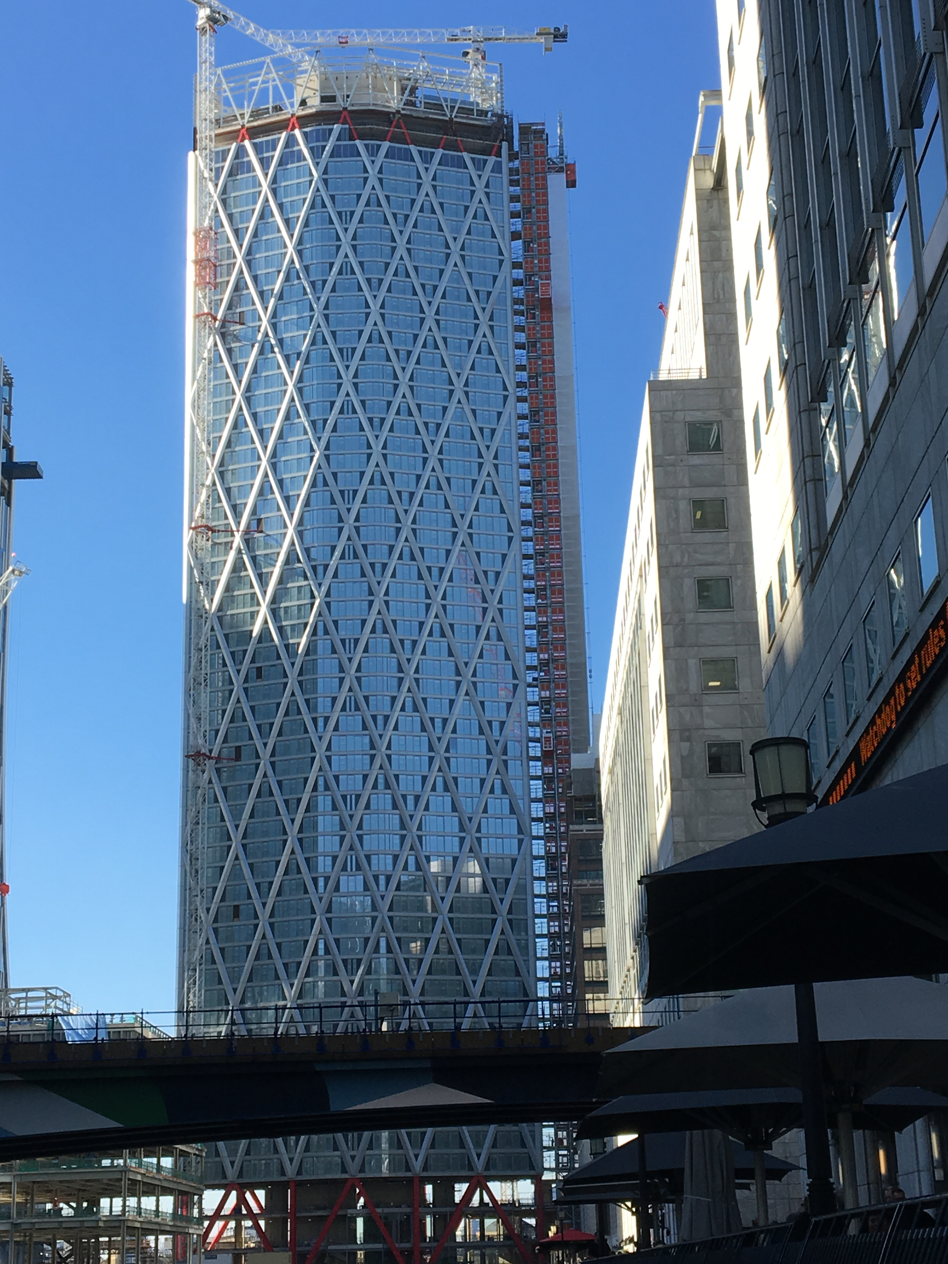 Newfoundland Quay building, Canary Wharf, London